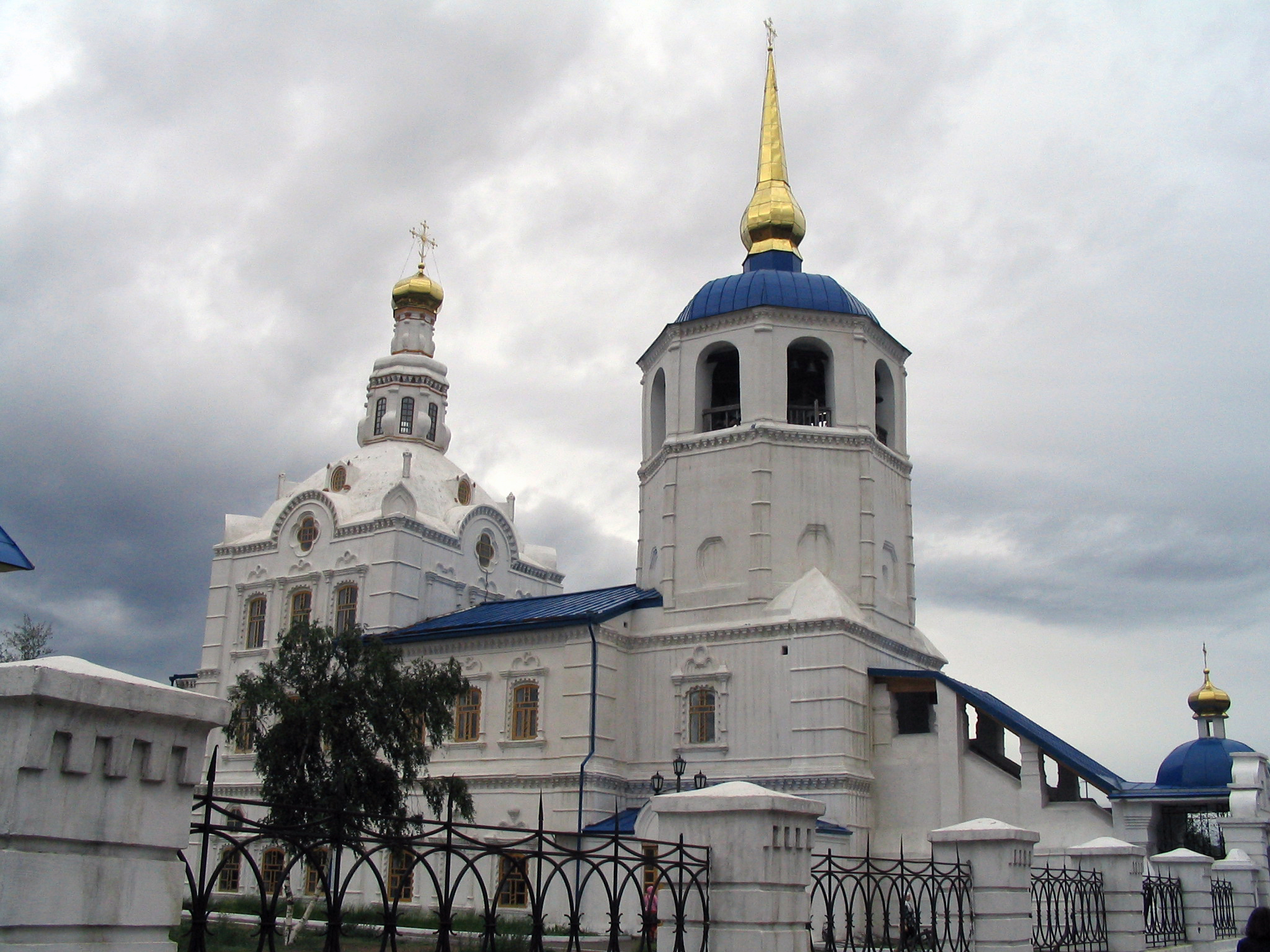 Picture of Odigitrievsky Cathedral in Ulan Ude, Russia. Taken by me 7/06, released into public domain.